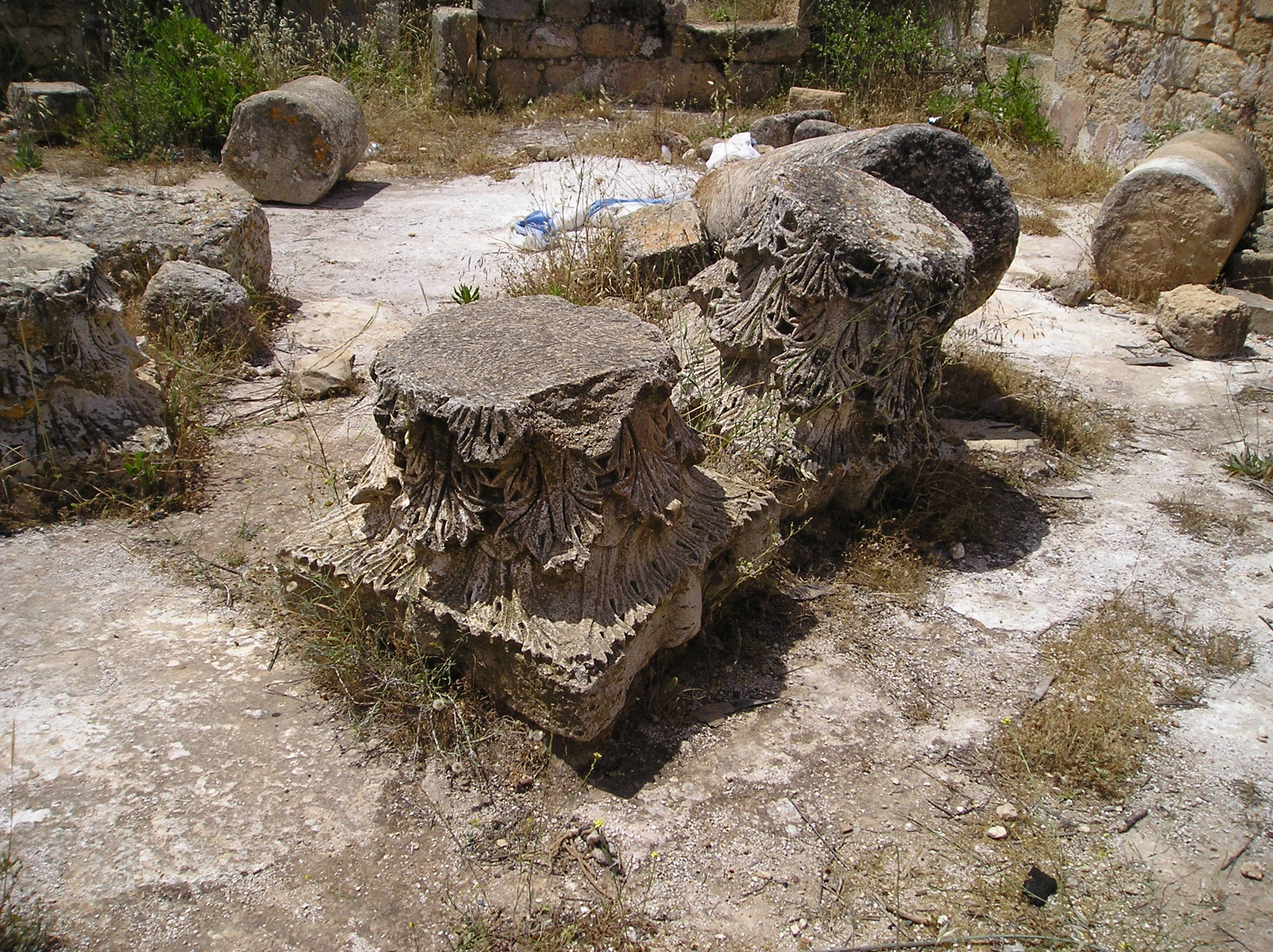 Tel Shilo (Khirbet Seilun)